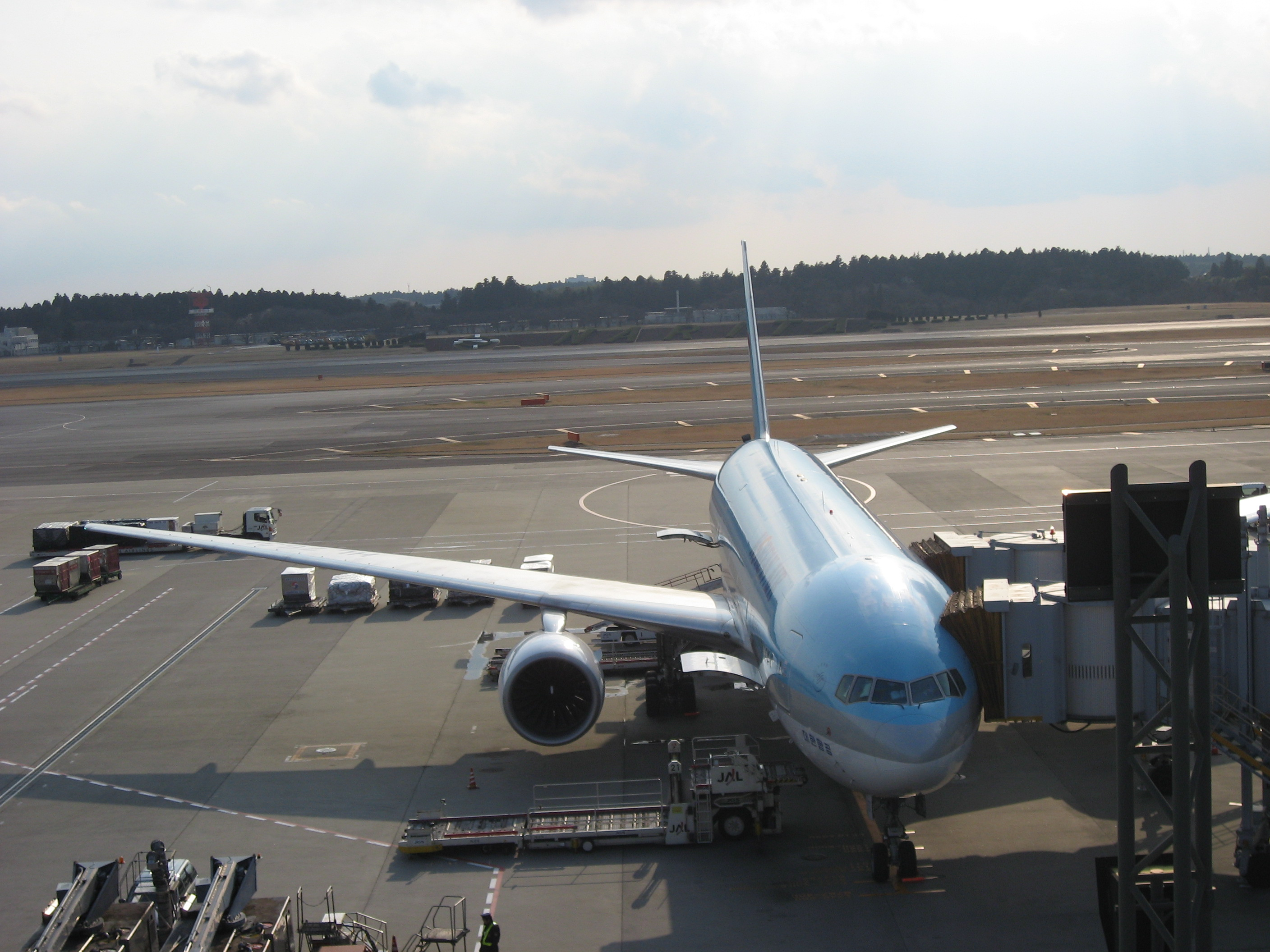 Korean Air AirPlane in Tokyo Narita AirPort.